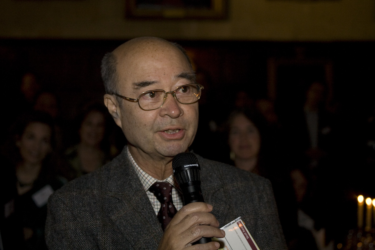 Mechai Viravaidya in March 2008 at the Skoll World Forum at the University of Oxford.